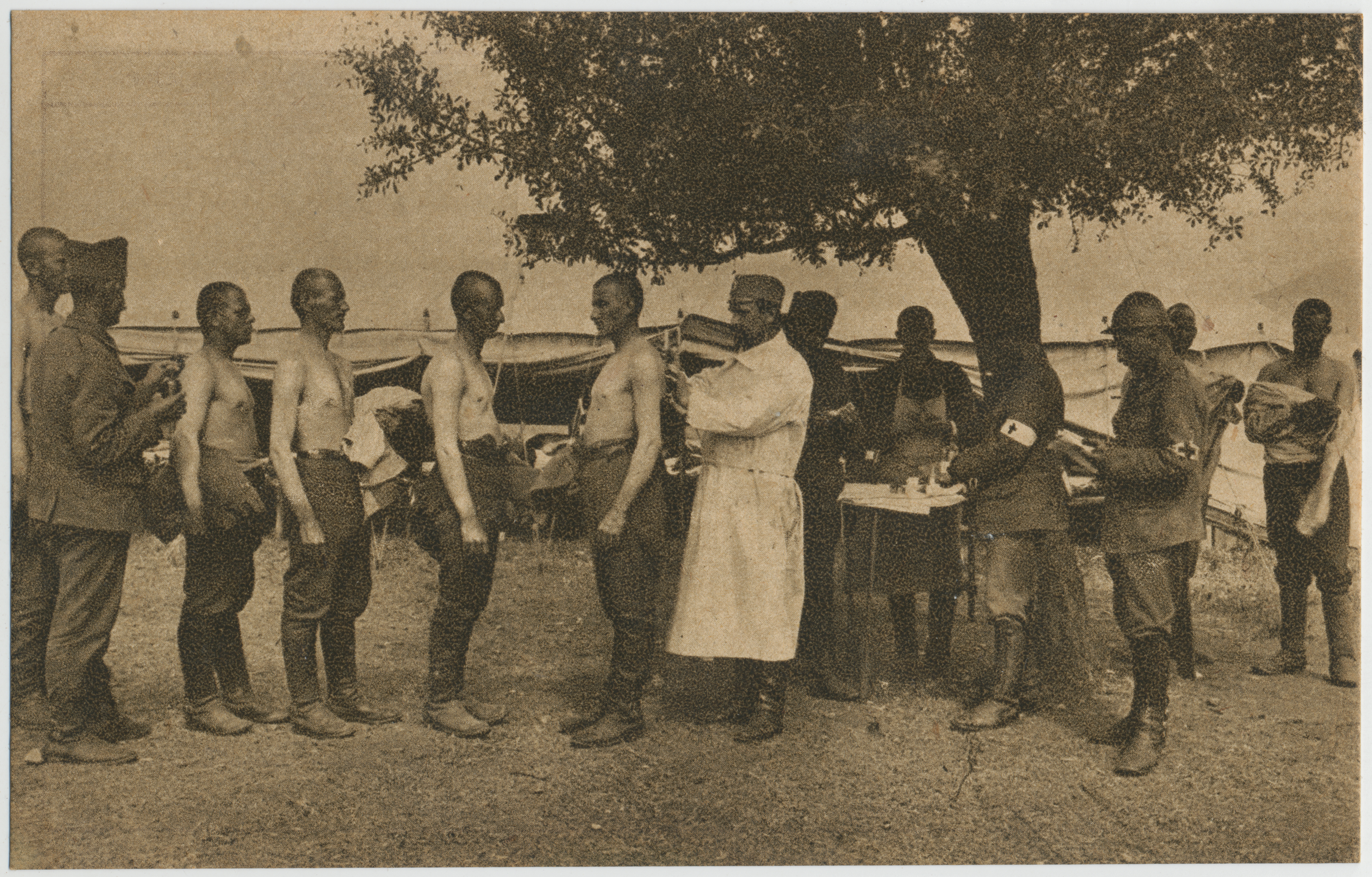 Vaccination of Serbian soldiers against typhus and cholera in Thessaloniki, year 1916